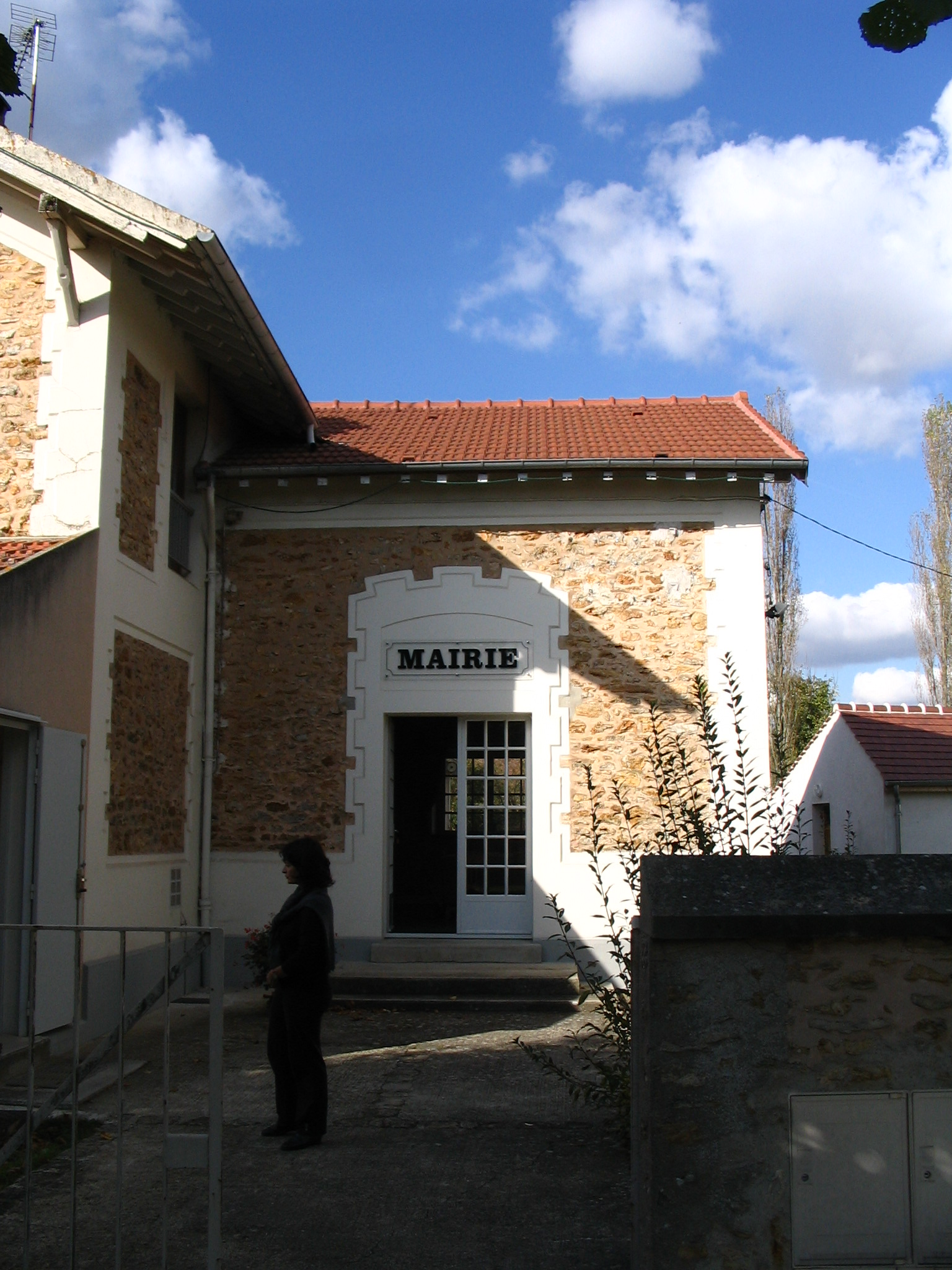 The town hall of Courquetaine, Seine-et-Marne, France.